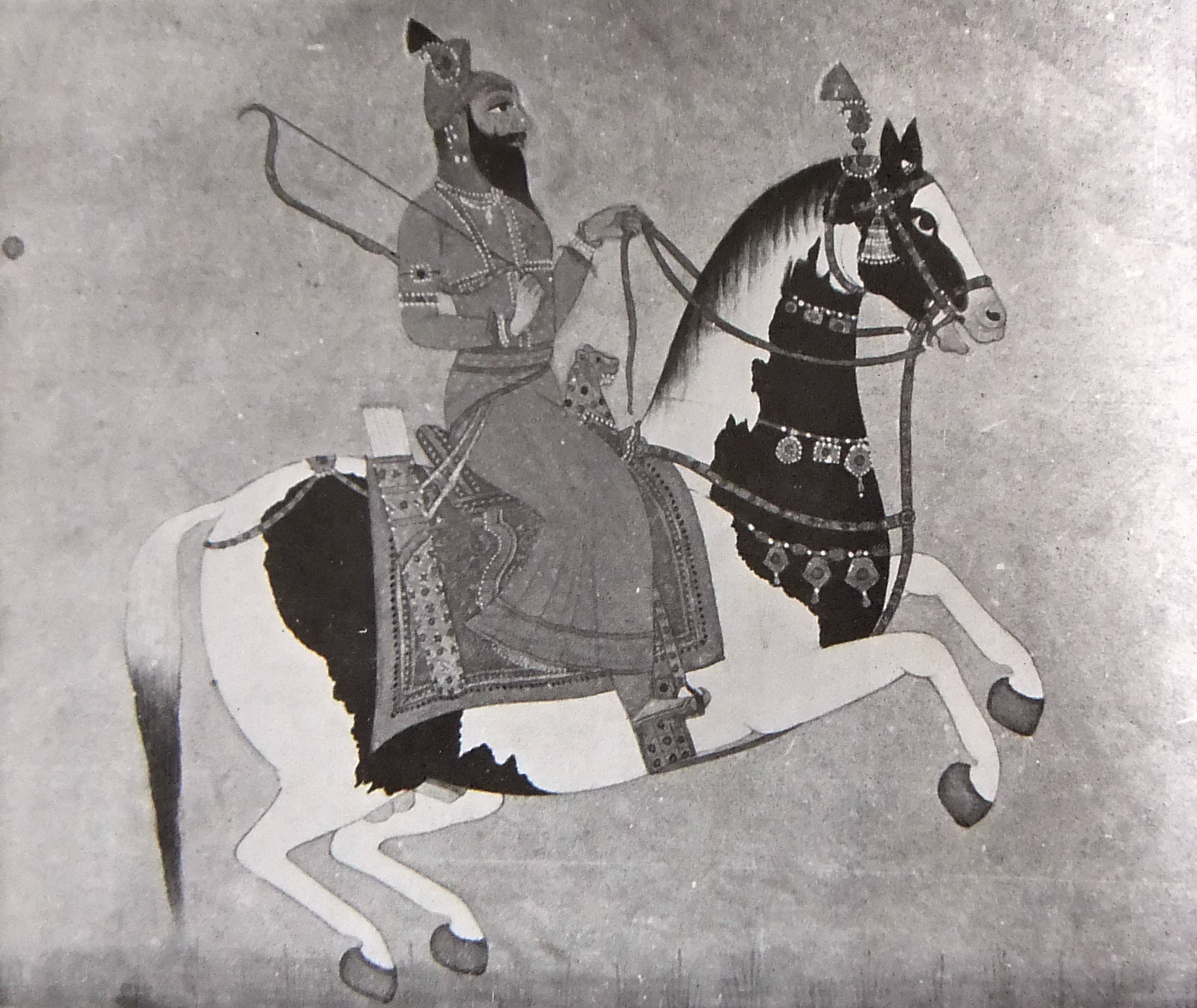 Sardar Fateh Singh (1784-1837), succeeded to the Ahluwalia chiefship in 1801, took part in almost all the early campaigns of Maharaja Ranjit Singh - Kasur 1802/1803, Malva 1806/1808, Kangra 1809, Multan 1818, Kashmir 1819 and Mankera 1821. He fought in the battle of Haidru 1813 and held command in the Bhimbar, Rajauri and Bahawalpur expeditions. In 1806, Fateh Singh acted as the plenipotentiary of Maharaja Ranjit Singh and signed the first Anglo-Sikh treaty with Lord Lake. He had bestowed upon him the districts of Dakha, Kot, Jagraoh, Talvandi, Naraingarh and Raipur after his Malva campaigns. 1837-1852: Raja NihalSingh, received the towns of Nur Mahal and Kalal Majra, fought on the side of the Sikhs both at Baddoval and 'Alival and was penalized by the British by the confiscation of his territories south of the Sutlej.